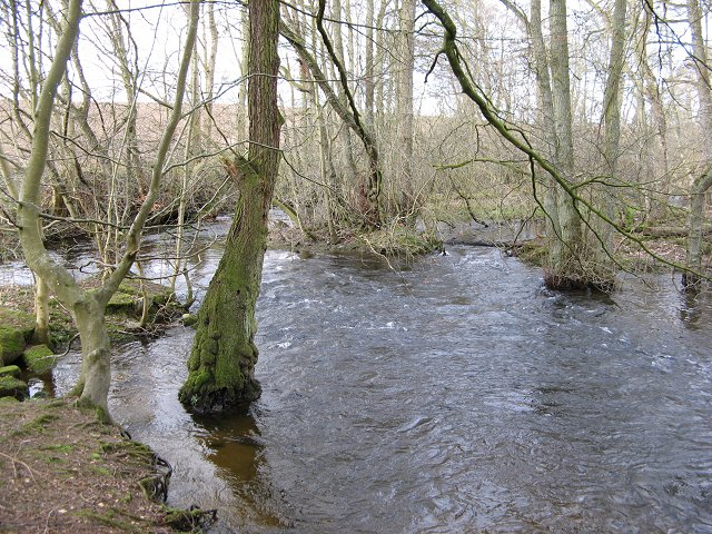 Lunan Burn A small river running through alder woods. The river is quite hidden from the nearby river, as is an unofficial well used camping spot by its banks. Probably once a haunt of Tinkers, up for the berries.